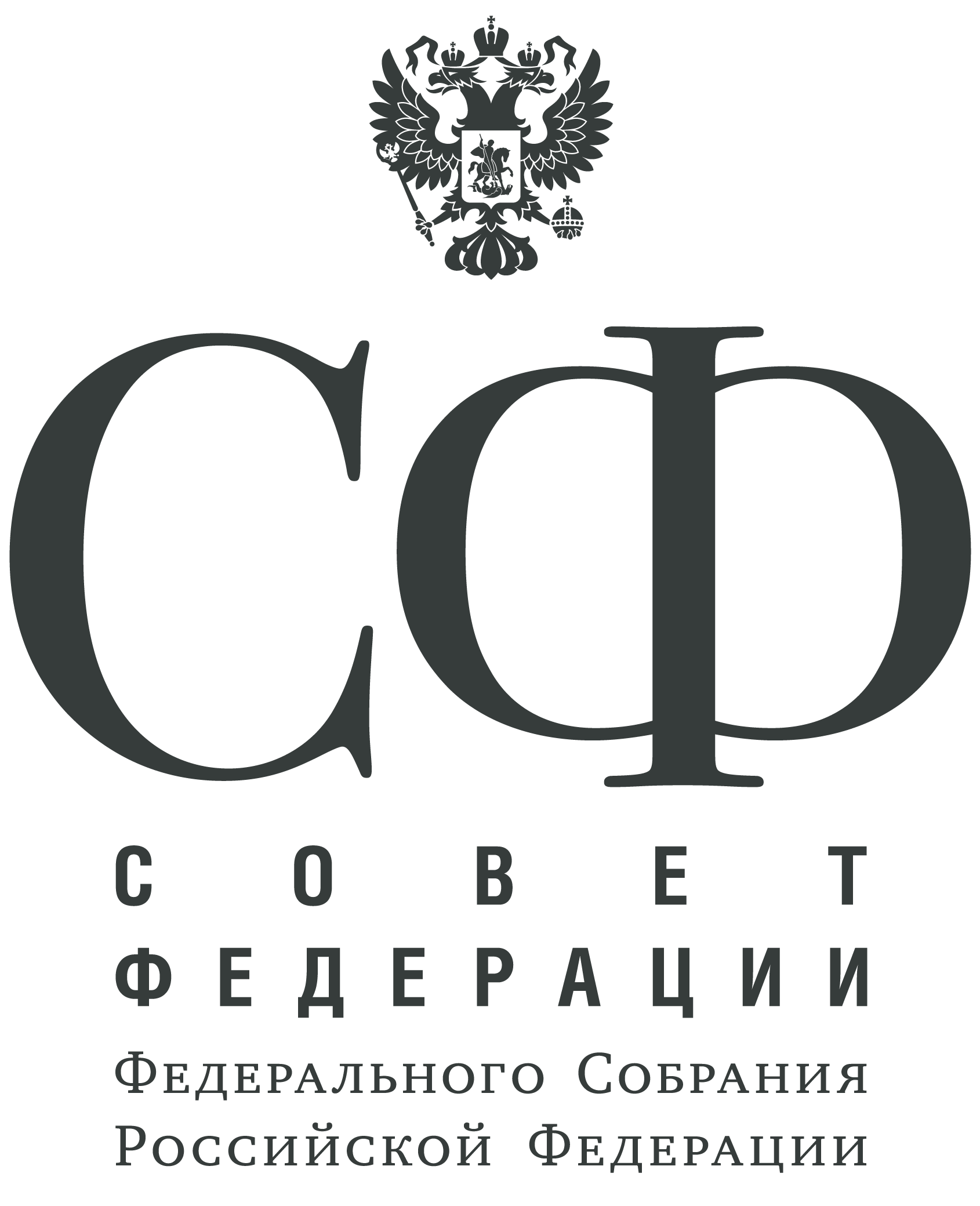 Emblem of the Federation Council of Russia